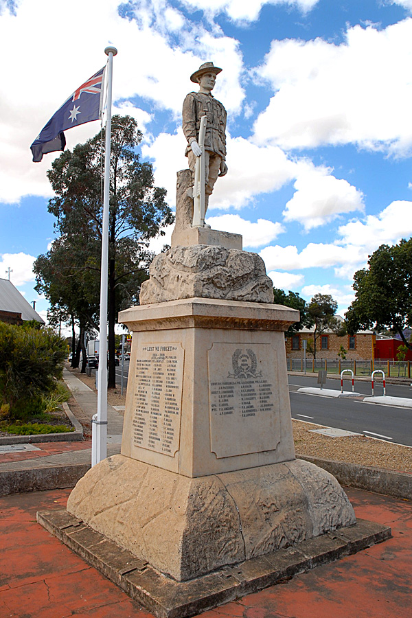 adelaide_road_35_gawler_south_war_memorial_20dec2013_pb575